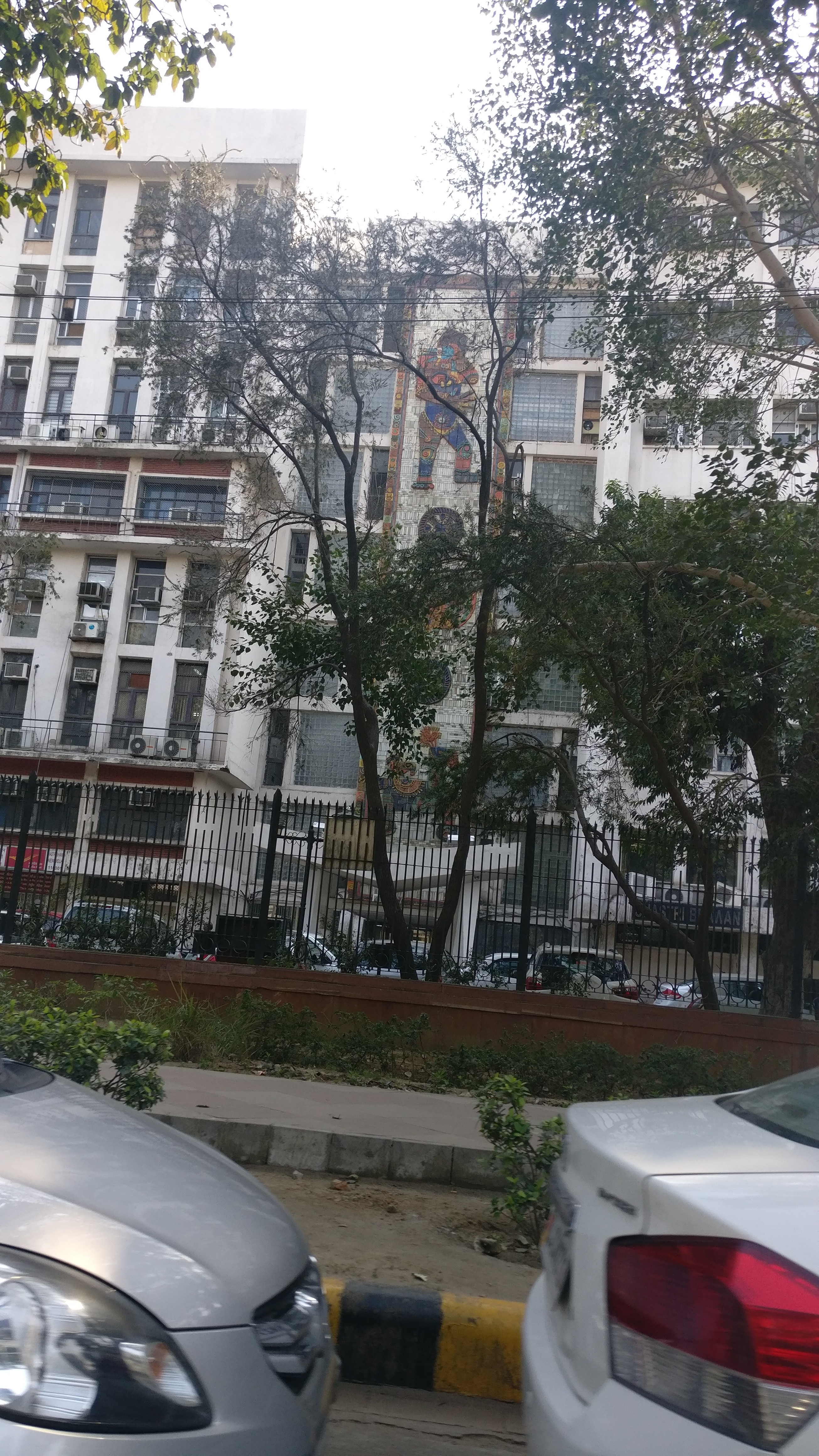 Shastri Bhavan with the murel